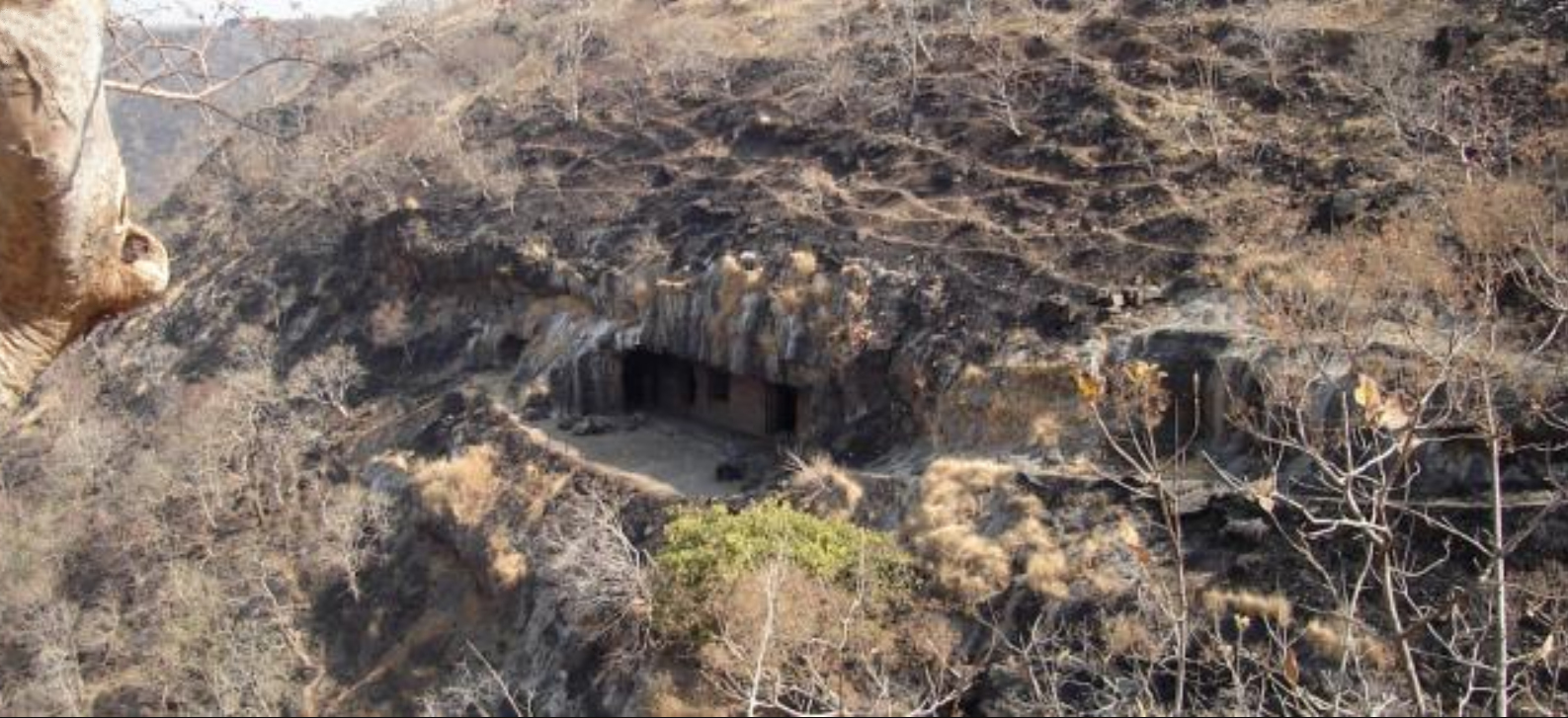 Ghatotkach caves